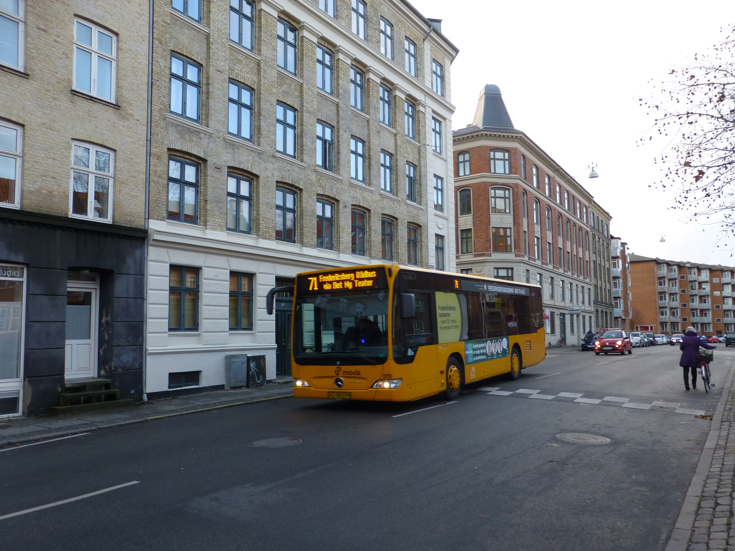 Movia bus line 71 on Howitzvej in Frederiksberg in Copenhagen.